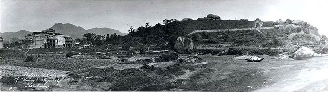 宋王臺原石，原石於1943年被日軍破壞，應為1943年或之前的作品。"Sung Wong Toi Hill, Kowloon City, Kowloon, c. 1920s. The famous boulder bearing the three carved characters is seen on top of the hill. Believed to be the brief resting place of the two young princes of the Song Dynasty during their flight from the Mongol invaders, the hill and the boulder were protected, as sacred relics, by a special ordinance in 1899. The gate, the steps to the inscription and the balustrade around the boulder were erected in 1915. During the Japanese occupation of Hong Kong, 1942-45, the hill was levelled and the boulder was broken up in blasting operations on Kai Tak airport. Amazingly, a large portion of the original boulder, with the three historical characters, survived the blasting. it is displayed in a small garden near the original site of the hill." (description source: Hong Kong:Museum of History via MMIS)